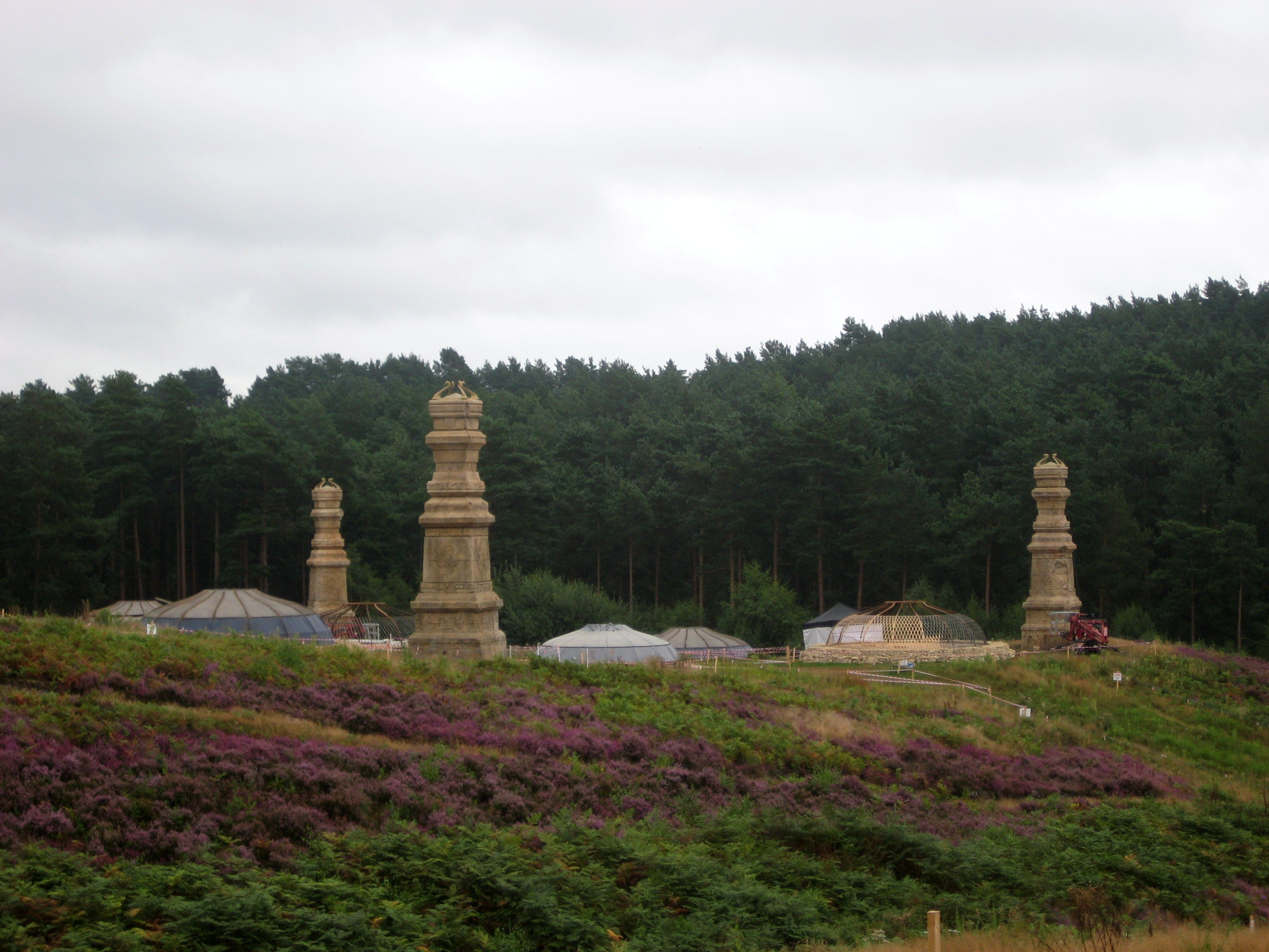 Film set for "Thursday Mourning" (working title for Thor: The Dark World) in the Bourne Wood, Farnham, Surrey, showing a village of yurts and stone towers in a fictional realm. The location will be used for a battle between two kingdoms, with Thor arriving to save the day.